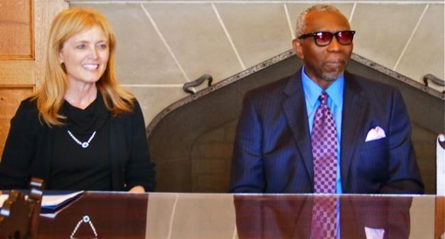 USCIRF Chair Dr. Katrina Lantos Swett with Ayo Oritsejafor the President of the Christian Association of Nigeria.